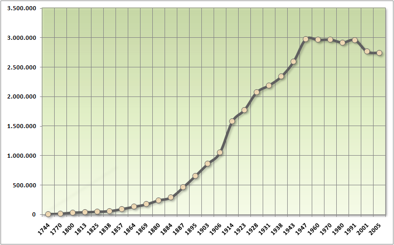 Buenos Aires's population (1740-2010). Based on data from the German Wikipedia. Licences